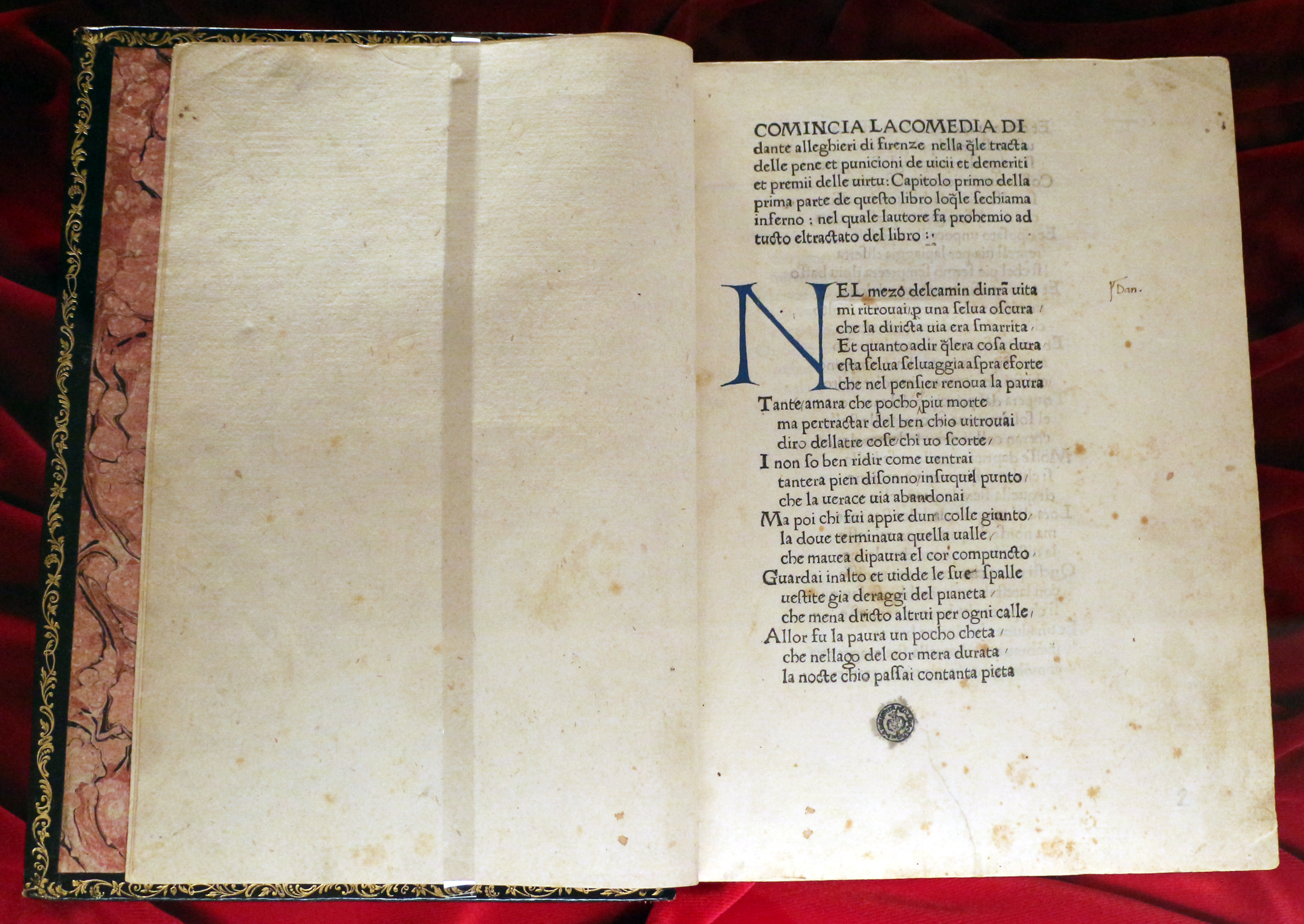 Collections of the Biblioteca Medicea Laurenziana